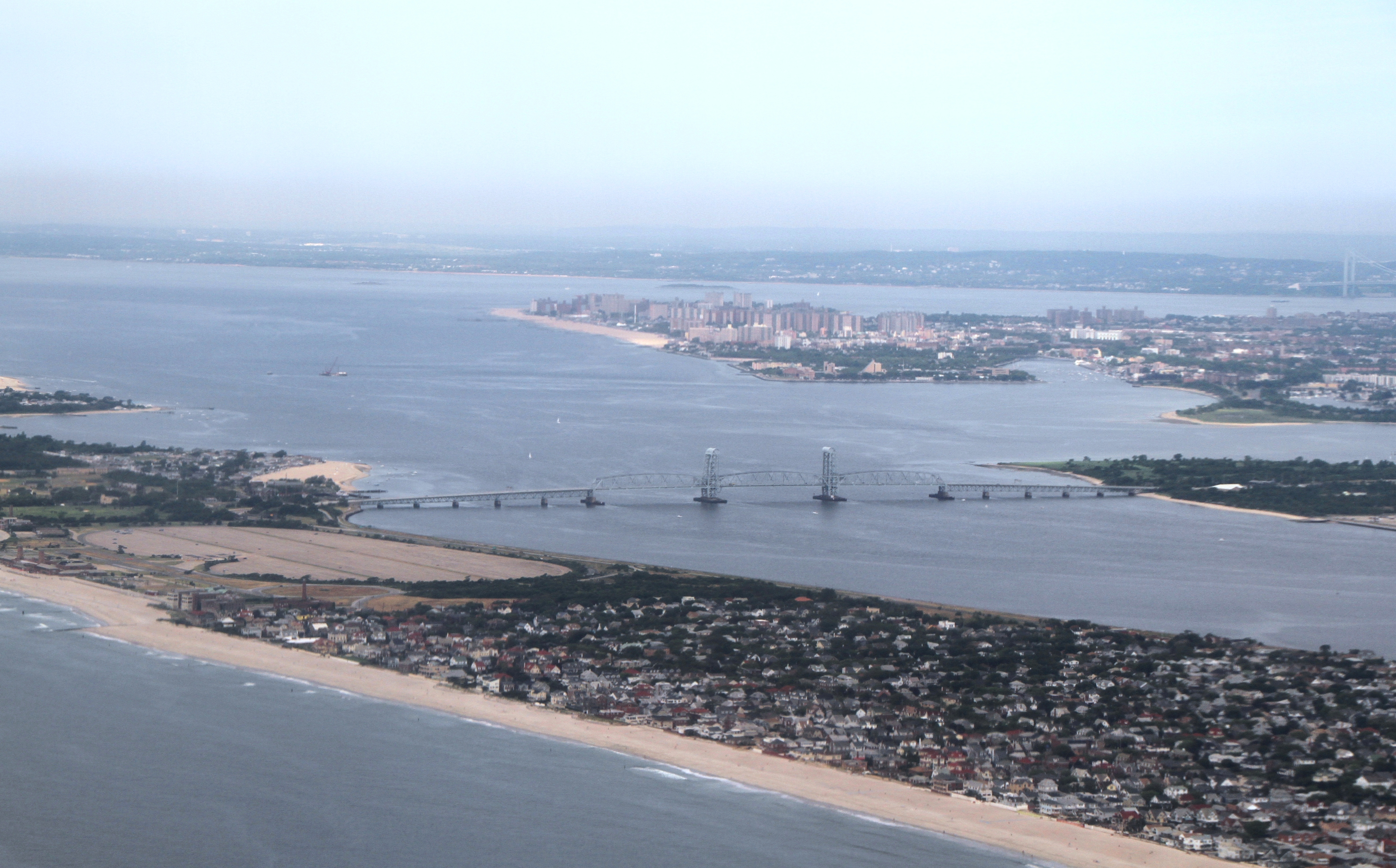 Rockaway Beach area of southwestern-most Long Island, Queens county, outside Coney Island - New York.